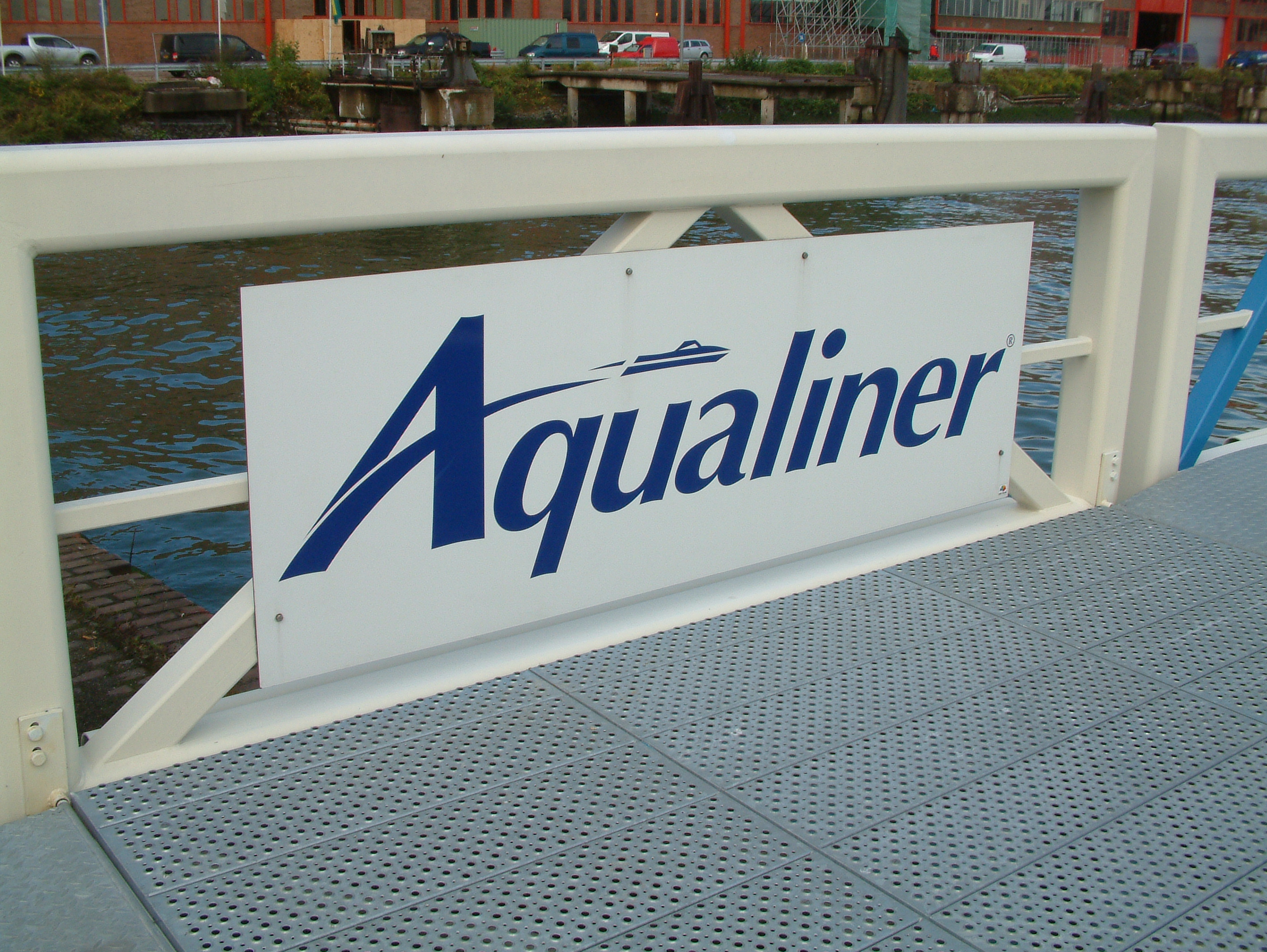 Aqualiner in the harbour of Rotterdam